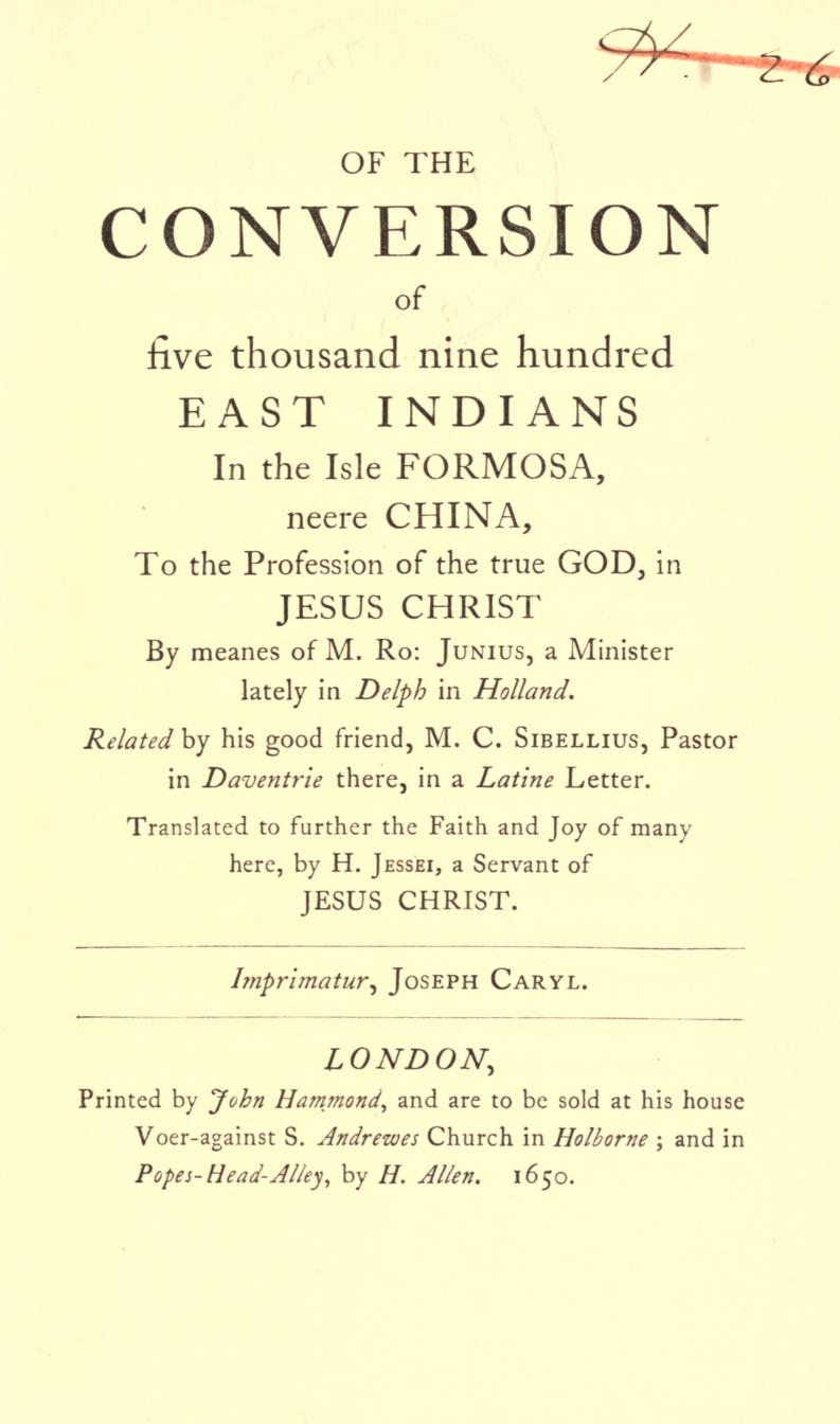 An account of missionary success in the island of Formosa by Robertus Junius